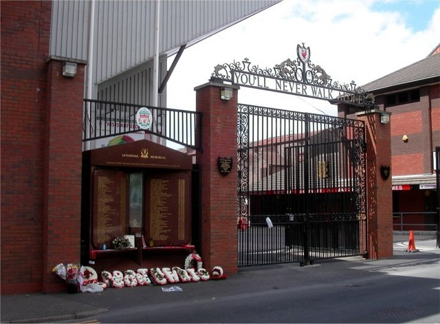 Liverpool FC, Shankley Gates and Hillsborough Memorial